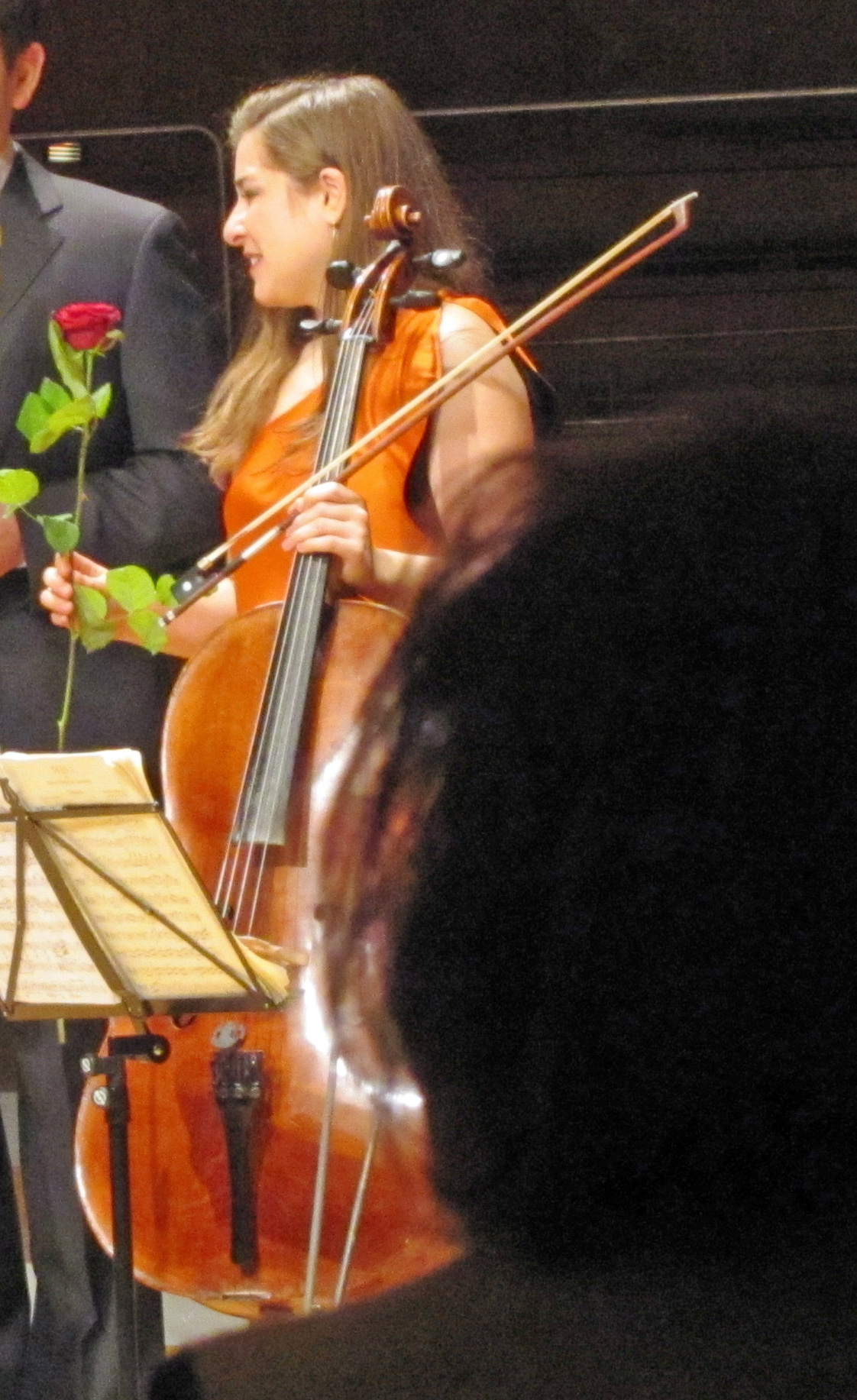 Alisa Weilerstein (clo), 2012, at HR-Sendesaal, after a concert with Barnatan Inon (p) and Jochen Tschabrun (cl )in Frankfurt am Main.